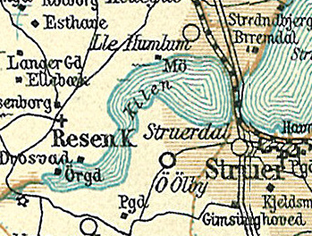 Map of the northern part of Ringkøbing County in Denmark